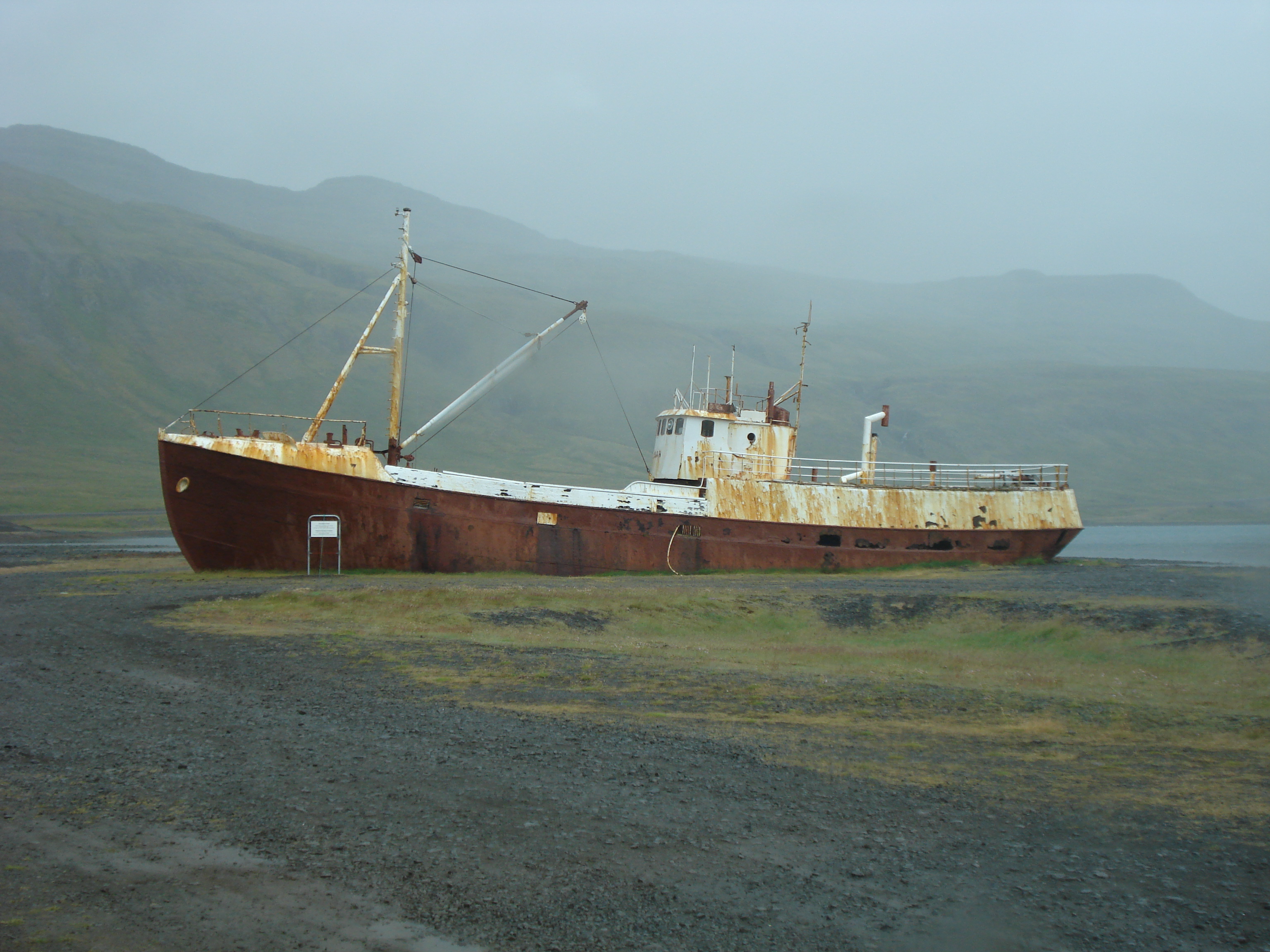 First Stealship made in Iceland 1912